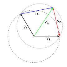 Phasor (Fresnel) diagram of a capacitor plus a resistor in series between two aout of phase voltage sources. 2006